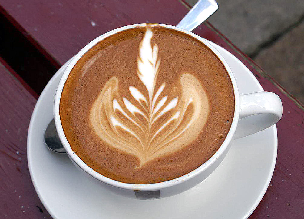 Coffee cortado (An latte art example)